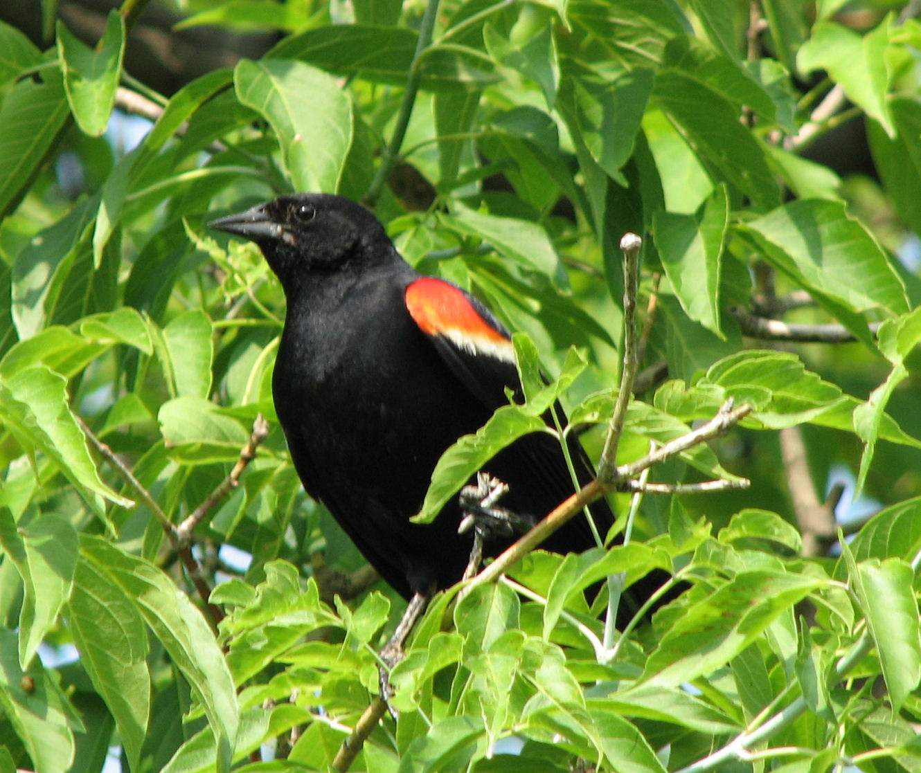 Red-winged Blackbird (Agelaius phoeniceus), male, Ottawa, Ontario